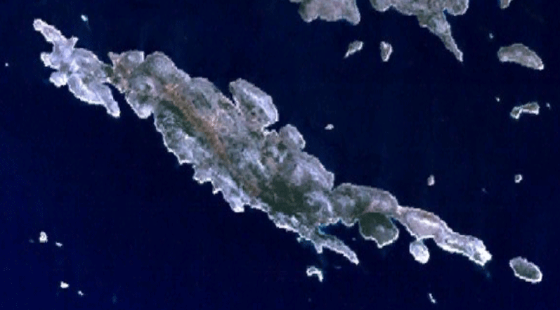 Satelite image of Zirje island, Croatia.